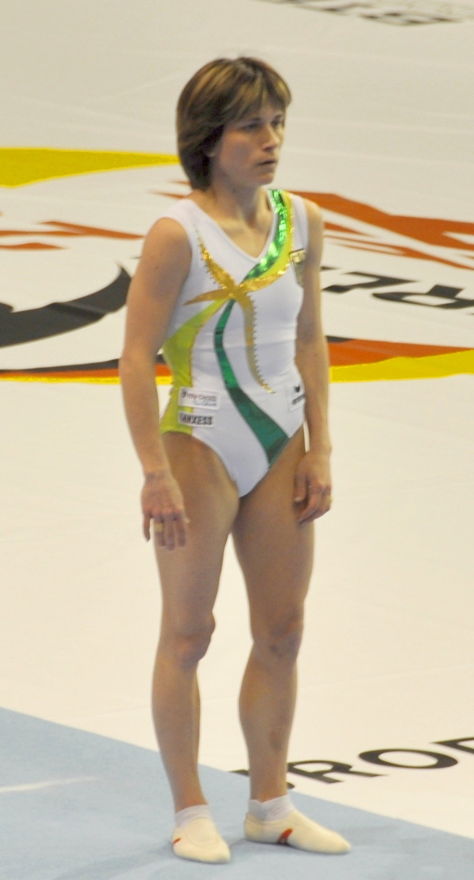 Oksana Chusovitina before vaulting at the European Championships 2011 (Berlin)